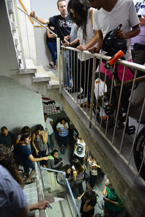 Israeli civilians taking refuge in the staircase during a rocket attack from Gaza. For more updates: The Israel Defense Forces Facebook The Israel Defense Forces blog Follow us on Twitter